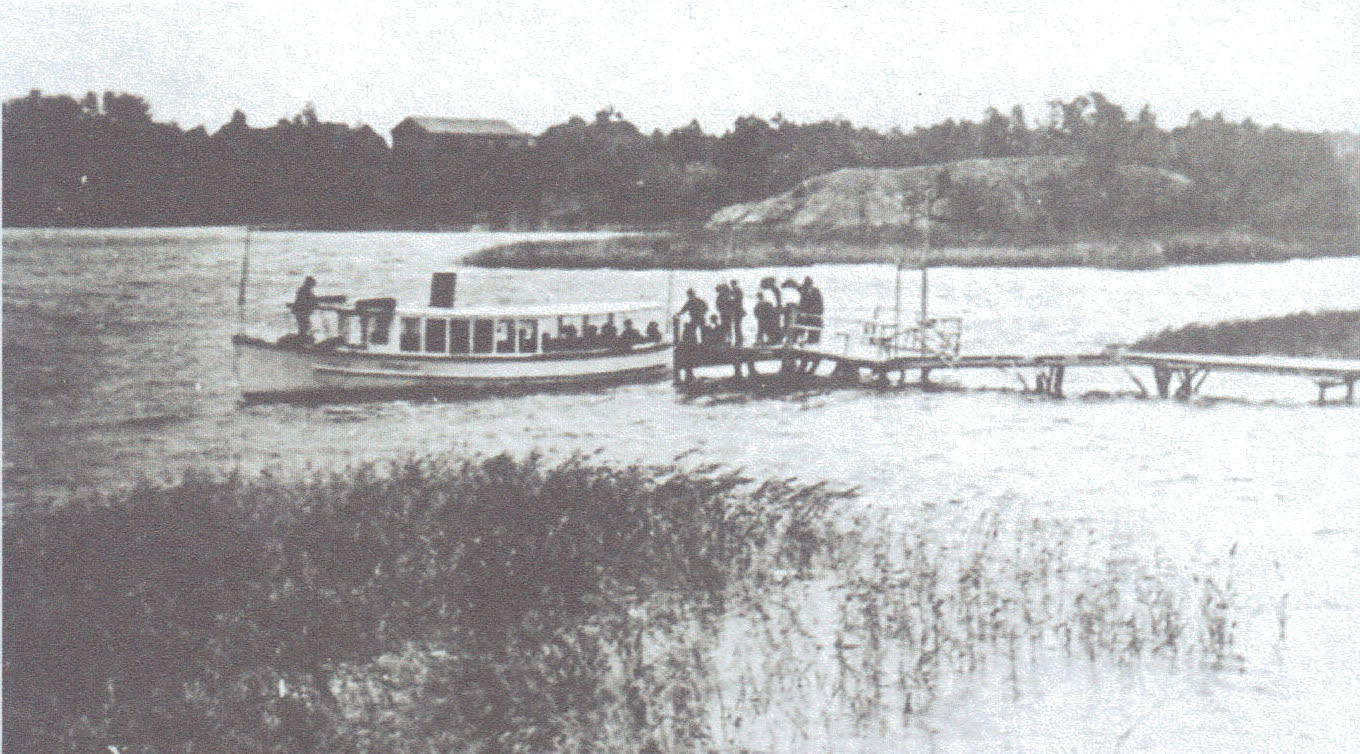 Boat Drevviken I at Dalen at Vendelsömalm